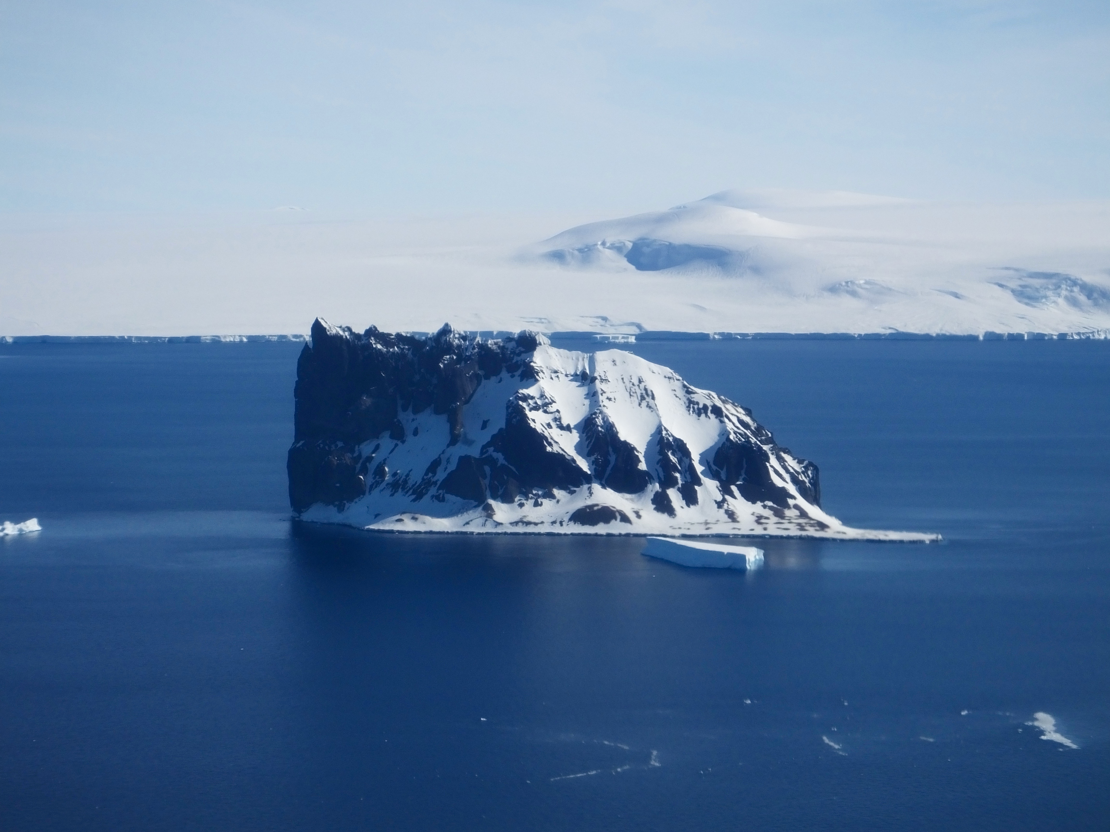 Sims Island in Stange Sound. There’s a penguin colony in there, so IceBridge didn’t approach the island. Photo captured during Operation IceBridge's mission “English Coast” on Nov. 17, 2016. (NASA/Maria-Jose Viñas).